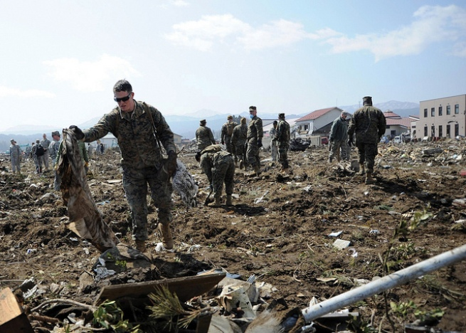 3rd Marine Logistics Group. Lance Cpl. Garrett Williams, with 3rd Marine Logistics Group, III Marine Expeditionary Force, clears debris April 1 in the tsunami-ravaged city of Noda, Japan. More than 80 sailors, Marines, airmen and civilians participated in this cleanup operation as part of Operation Tomodachi. (original text)